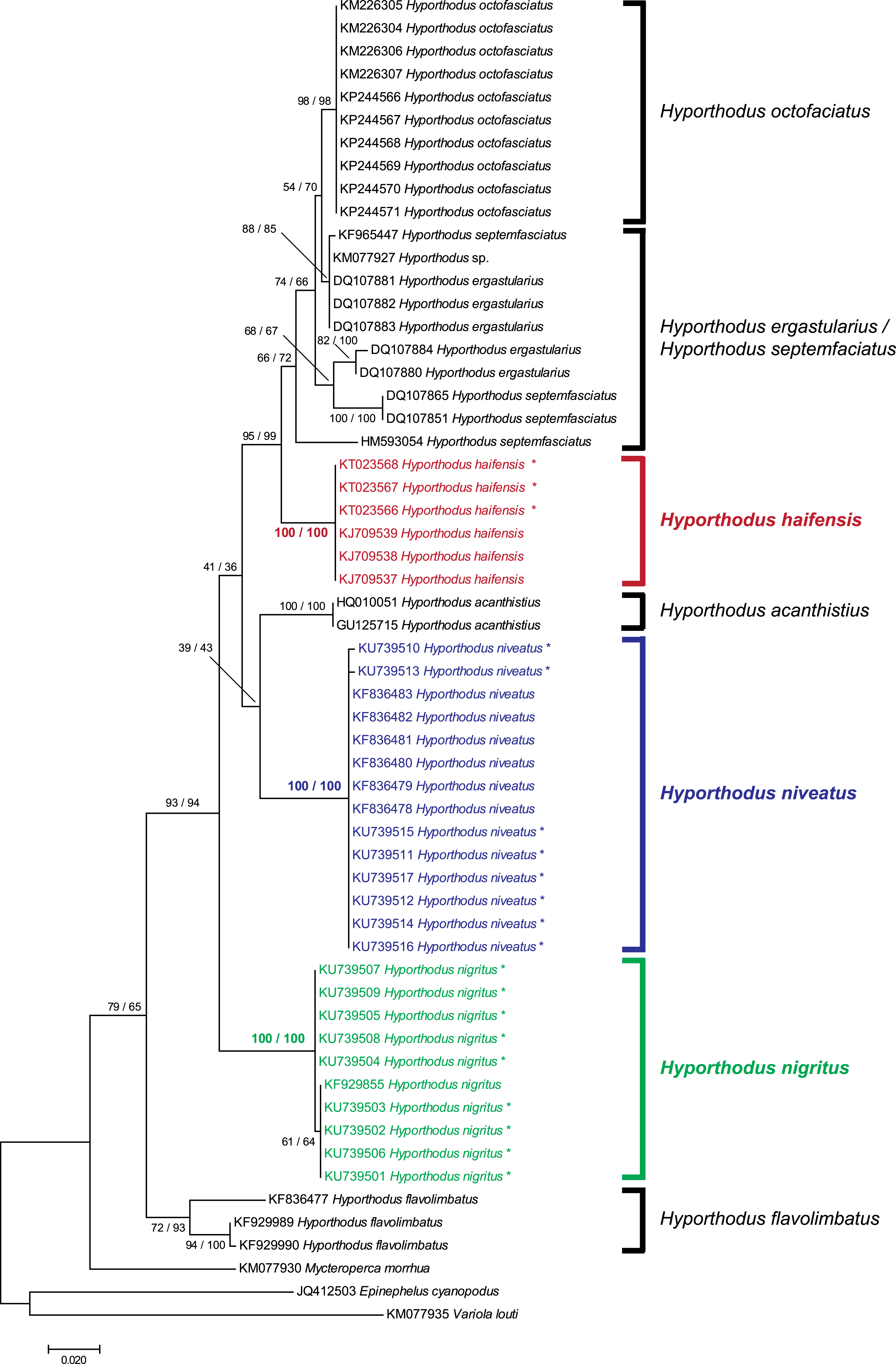 Figure 1 of Paper. Tree of Hyporthodus spp. based on COI sequences. The tree was constructed using the Maximum Likelihood method (100 replicates); a tree constructed using the Neighbour-Joining method (1,000 bootstrap replicates) showed the same topology except for some minor differences in the basal, non-Hyporthodus, branches; the NJ tree is shown. Support for major nodes is indicated for the two methods (as: ML/NJ). The scale bar indicates the number of substitutions per site (ML). The three species involved in our study, namely Hyporthodus haifensis, Hyporthodus niveatus and Hyporthodus nigritus, showed independent clades with 100/100 support. However, some higher nodes have low support.